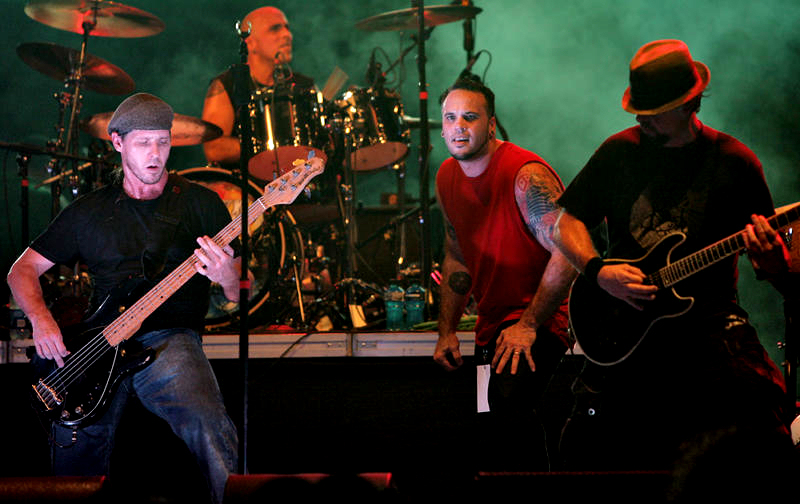 Puya (band) Sept 25, 2010, San Juan Puerto Rico